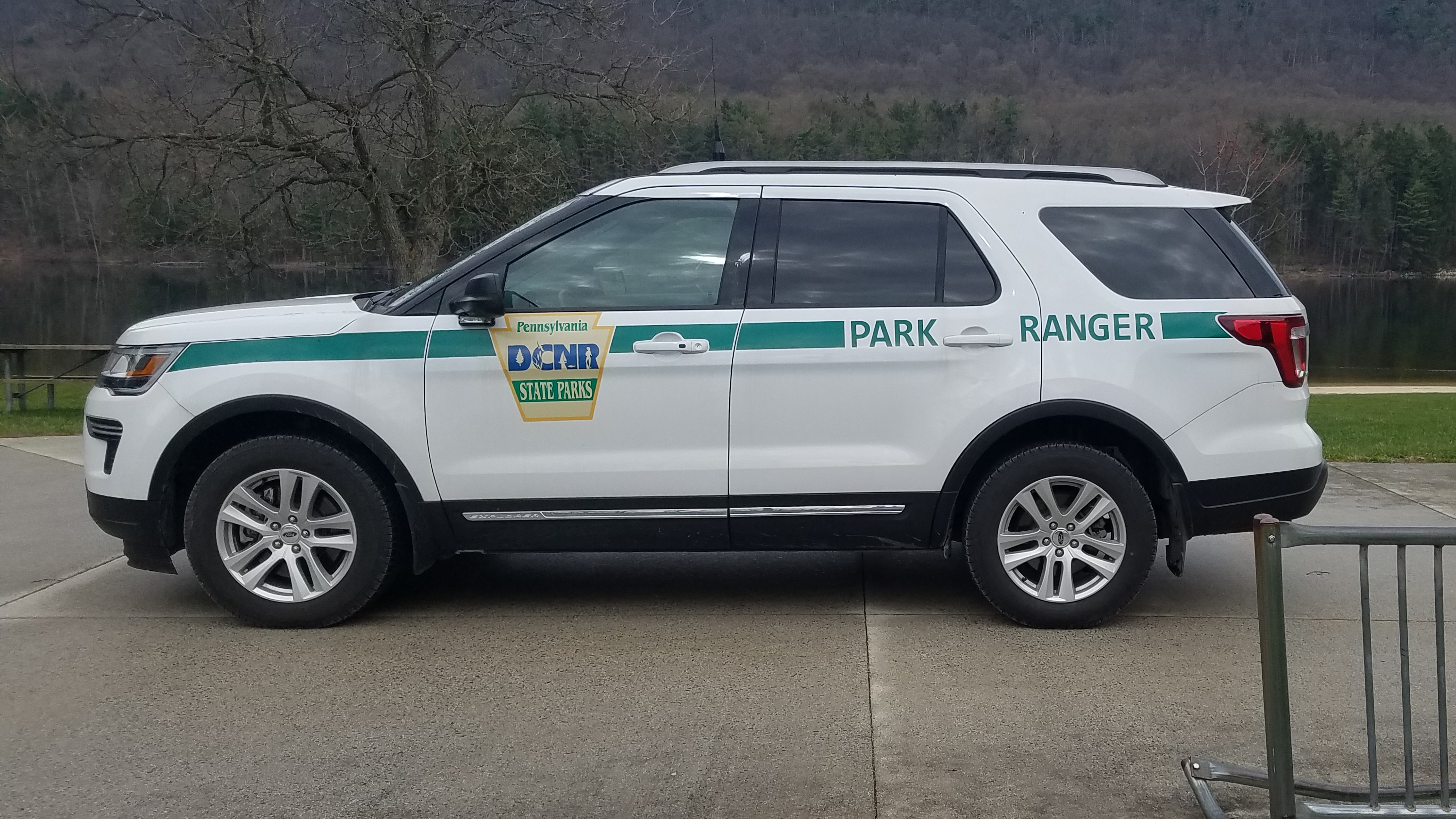 Pennsylvania Park Police (Rangers) vehicle at Cowans Gap State Park, Fulton County near McConnellsburg, Pa. The Department of Conservation and Natural Resources (DCNR) is the parent agency of State Parks division and State Forestry division. This vehicle type is used Statewide by Rangers. State Park Police have the powers to enforce State Parks Law, Vehicle Law and Crimes Code; They also enforce State Forestry, Fish, Boat, Environmental, Conservation, Game, Wildlife and Trapping Laws. They are First Responders for Park located Accidents, Fires and Medical calls. They can Patrol by Foot, Boat, ATV, Bicycle, Snowmobile, Horseback, 4X4 Truck and Car. State Wildlife Officers are employed by the Pa. Game Commission. State Fish Officers are employed by the Pa. Fish and Boat Commission.